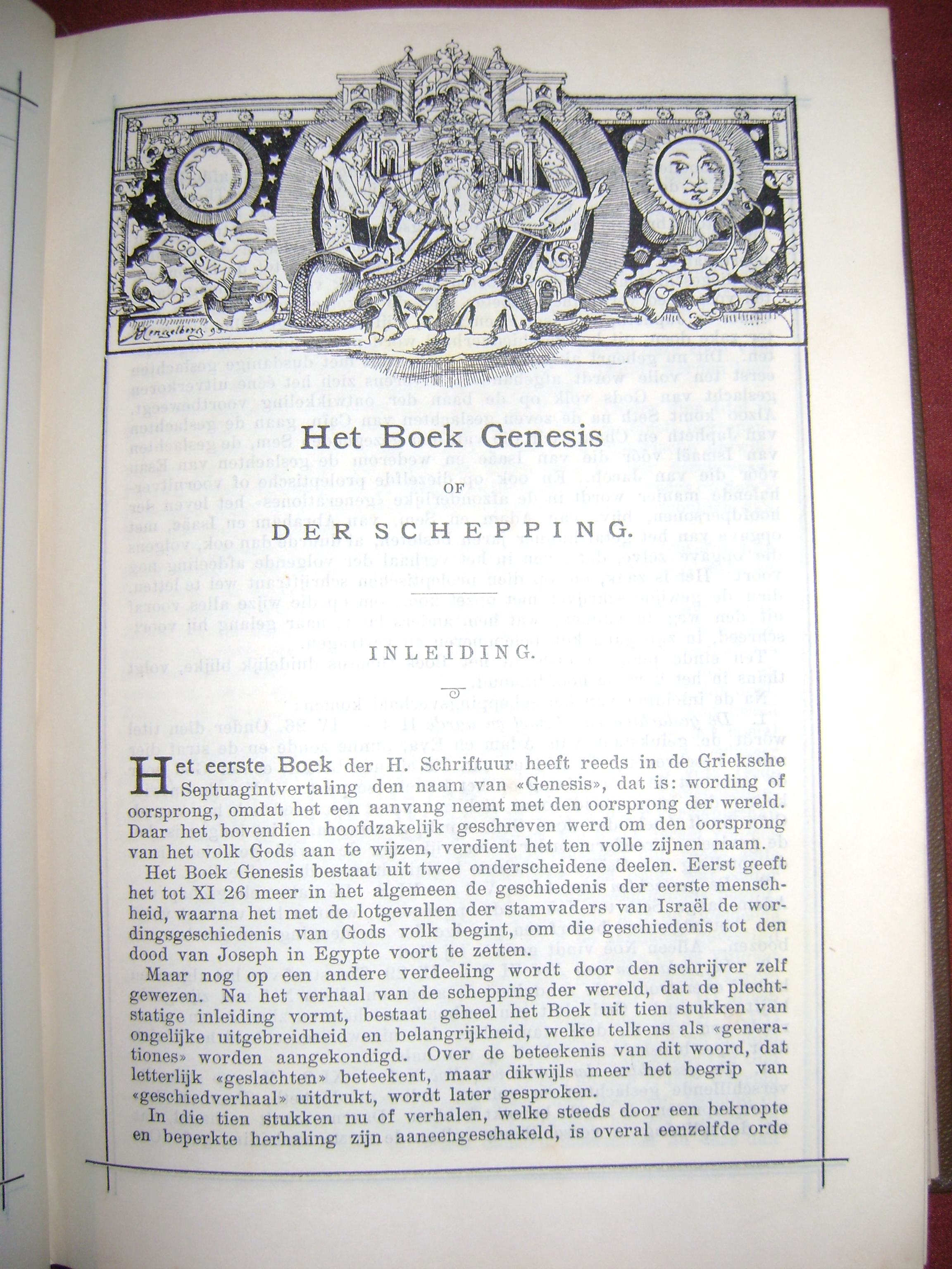 Page from the Dutsch Professorenbijbel ("Professors Bible"), a translation of the Latin Vulgate of the Books of the New Testament. This part, covering the Pentateuch, was published in 1904.